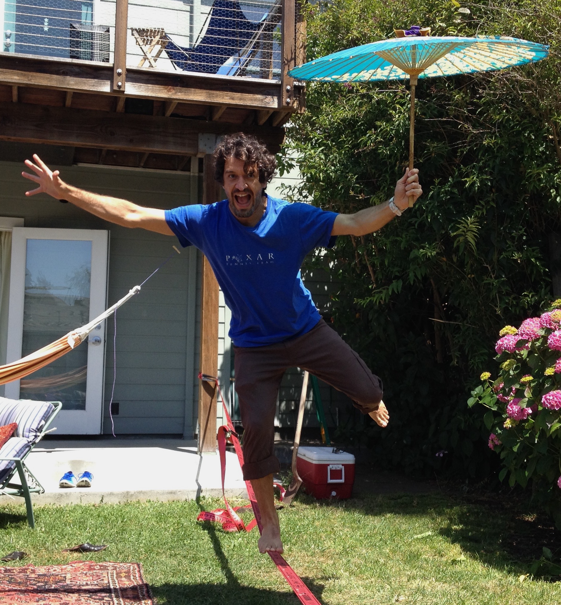 Portrait of Enrico Casarosa.